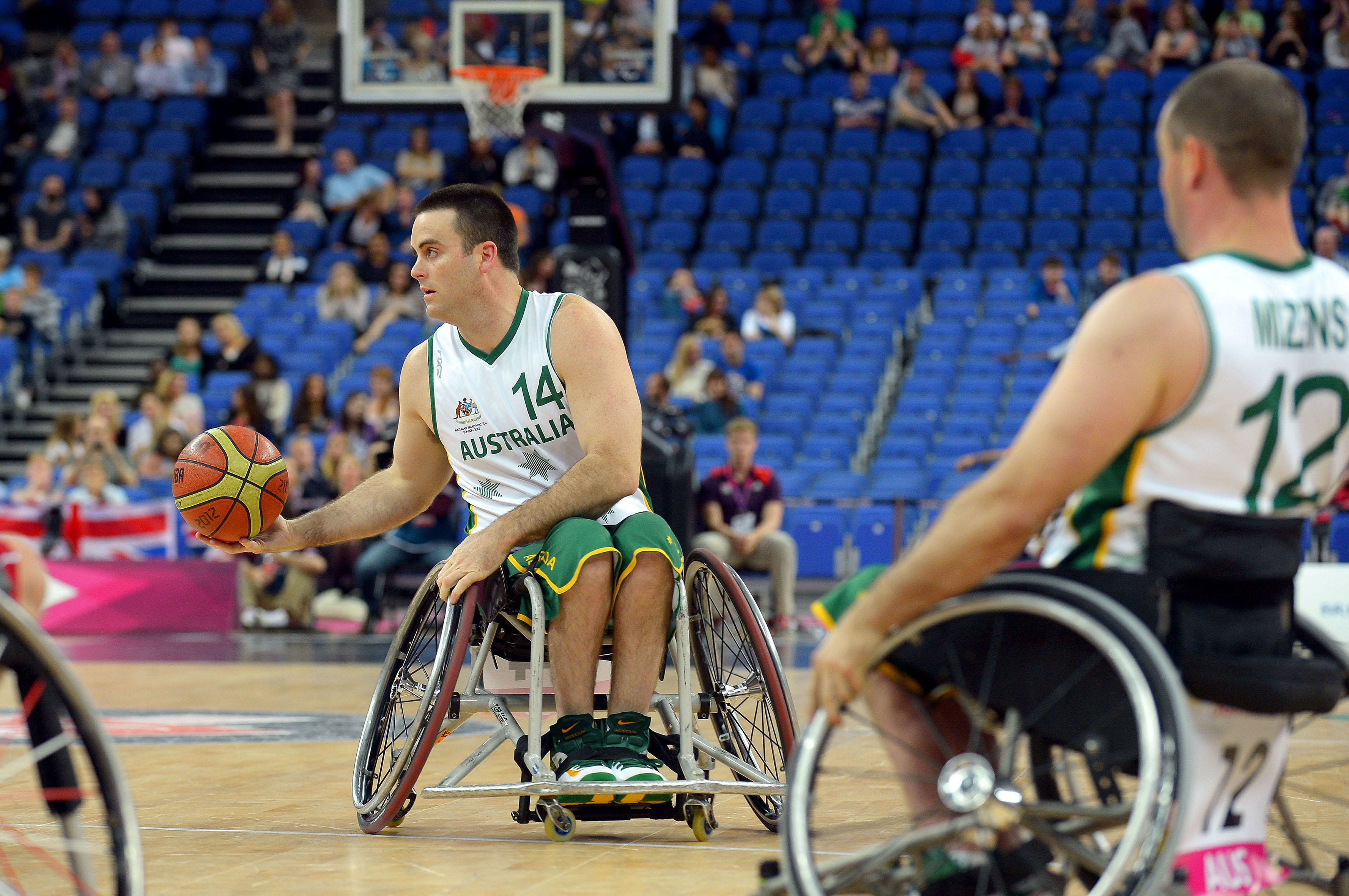 Photograph of Australian Paralympic team member Nick Taylor at the 2012 Summer Paralympic Games in London